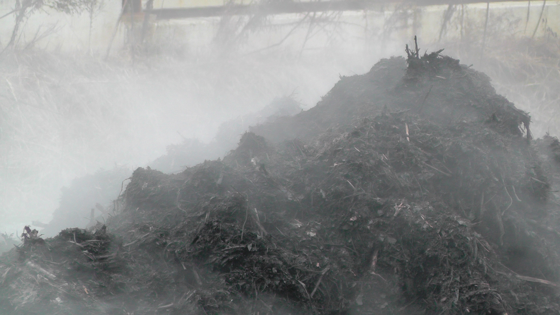 Compost for organic fertilization